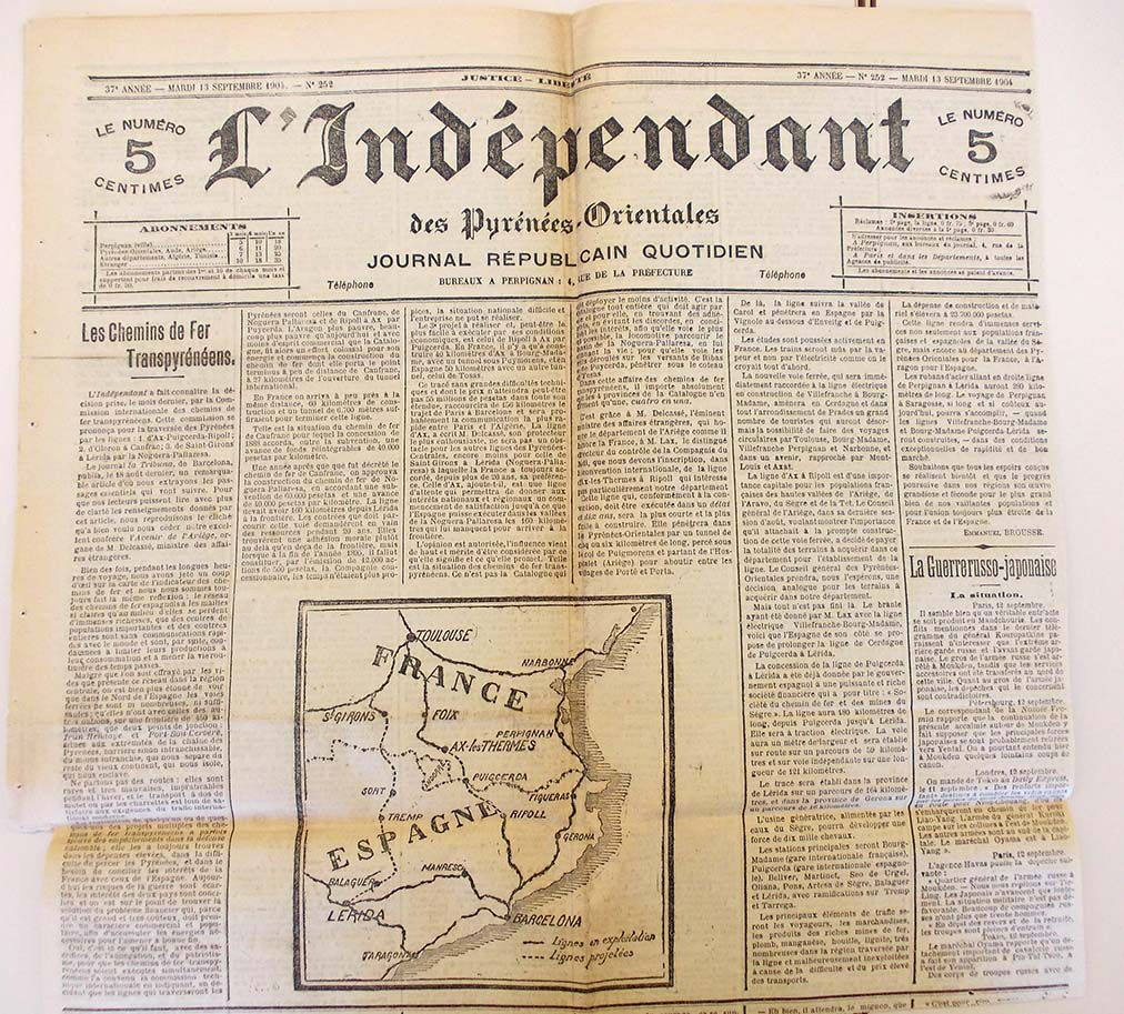 Picture of a newspaper dated year 1904